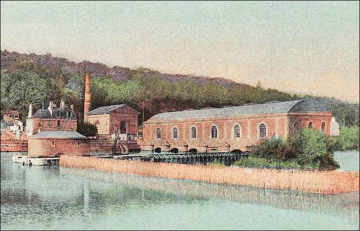 Marly Machines. Building of the Dufrayer Machine.